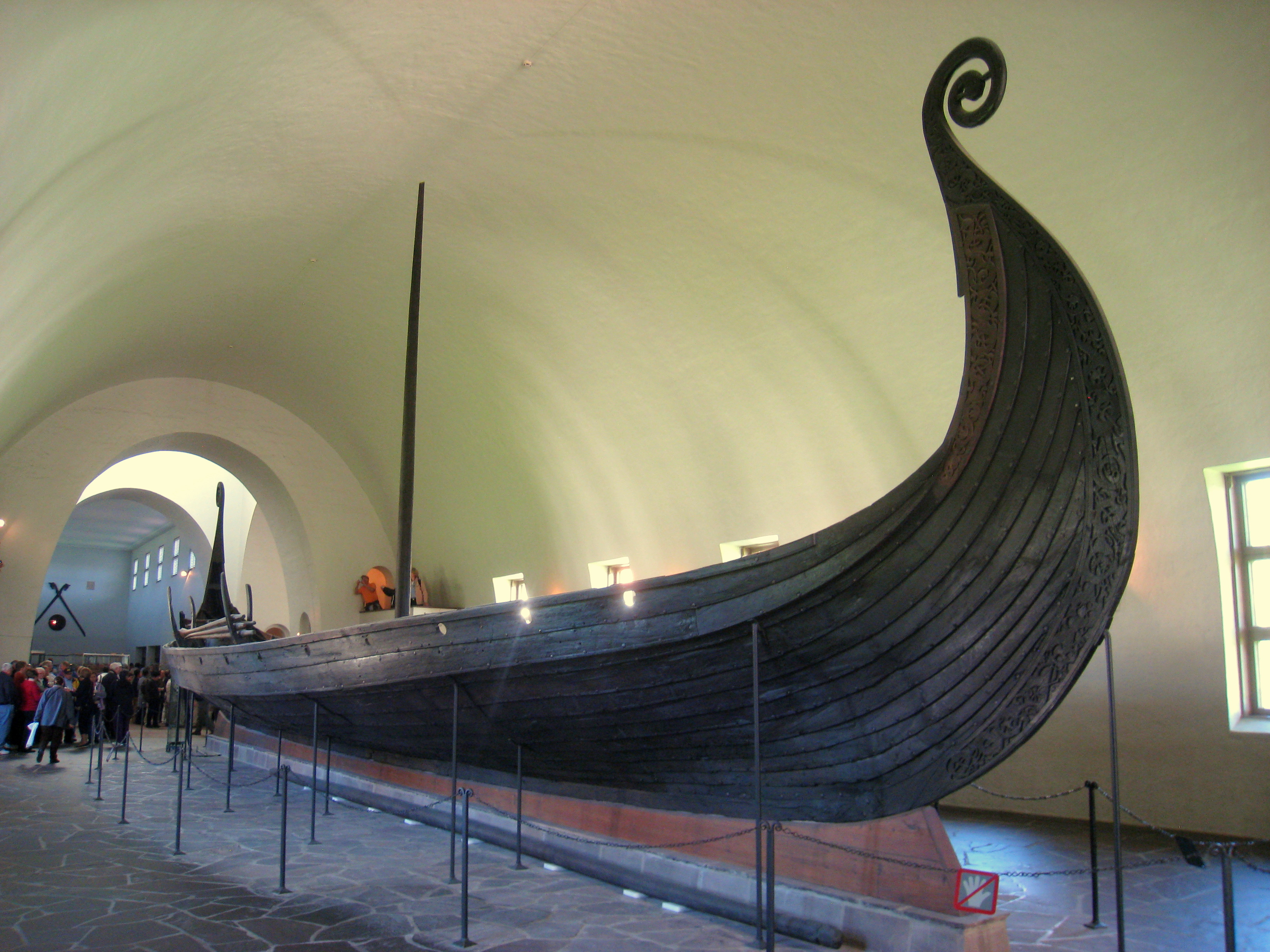 Oseberg ship, Kulturhistorisk museum (Viking Ship Museum), Oslo, Norway.